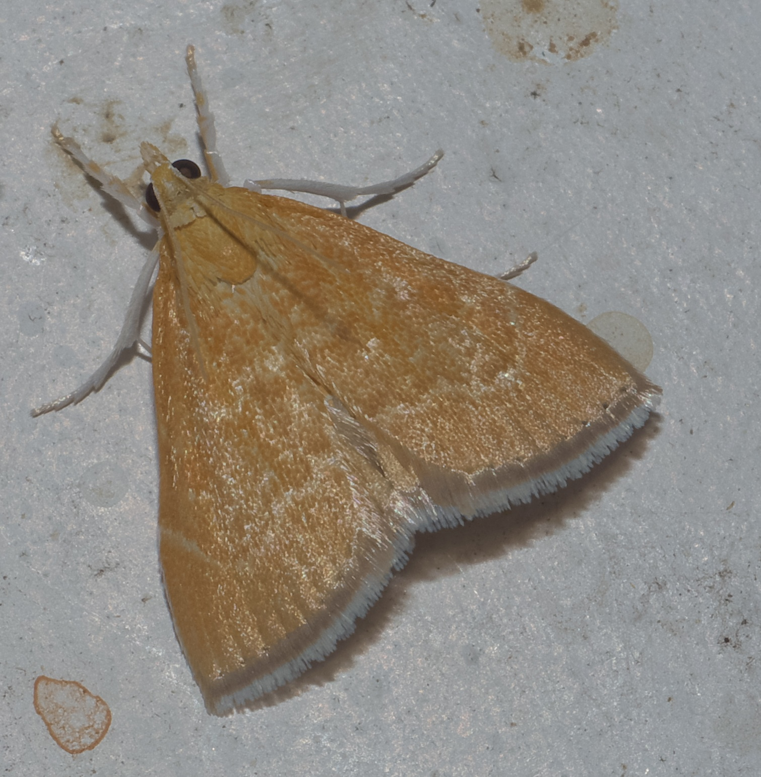 Aethiophysa invisalis, Hodges #4877, ID Confidence: 90